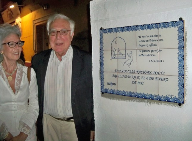 Aquilino Duque y Rosa Díaz en c/Betis 64